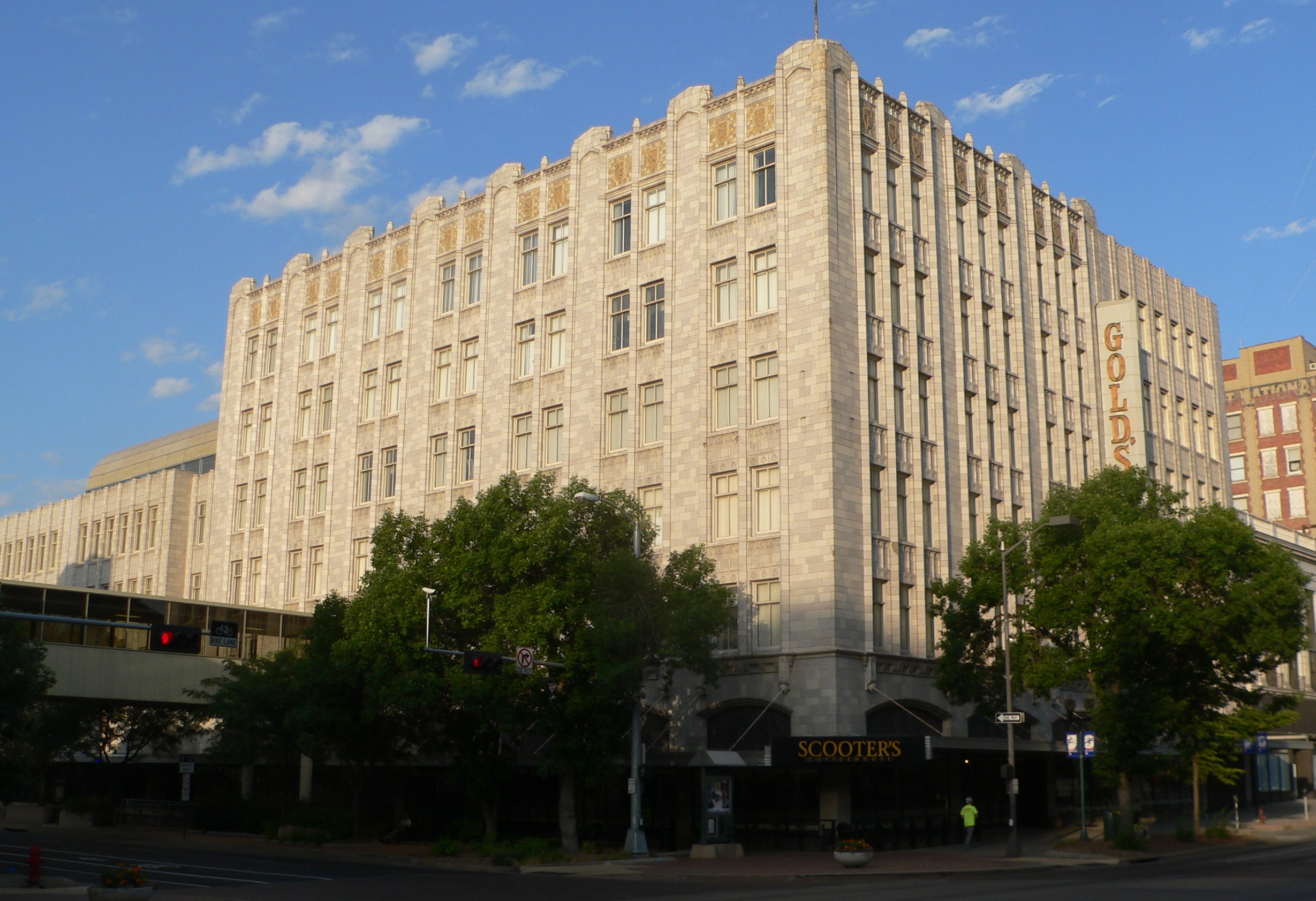 Gold's building, located at 1033 O Street (eastern half of the block bounded by N and O and by 10th and 11th Streets) in Lincoln, Nebraska; seen from the northeast. The photo was taken across the intersection of 11th and O; the red lights at lower left face north on 11th.